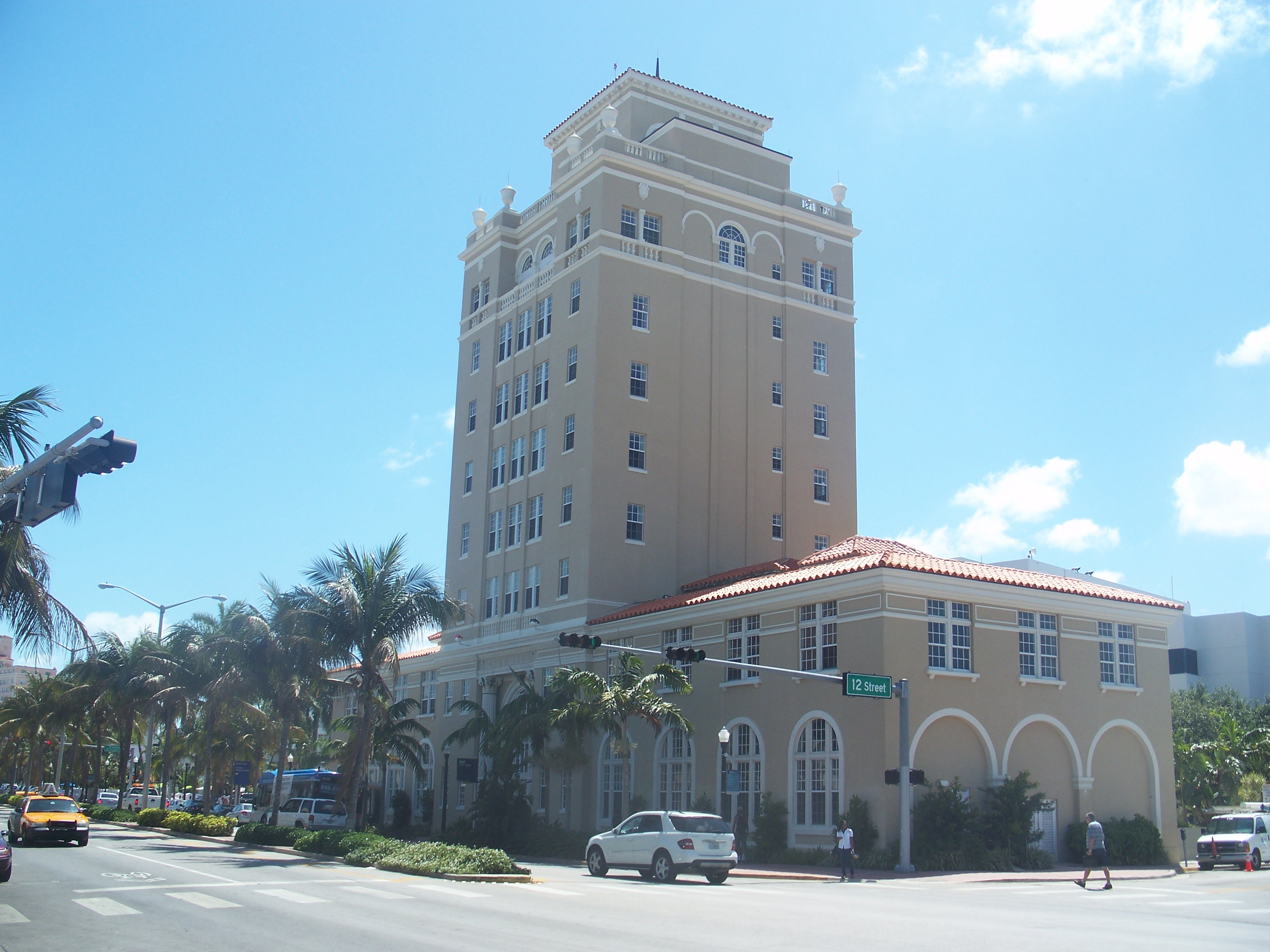 Miami Beach, Florida: Miami Beach Architectural District: City hall